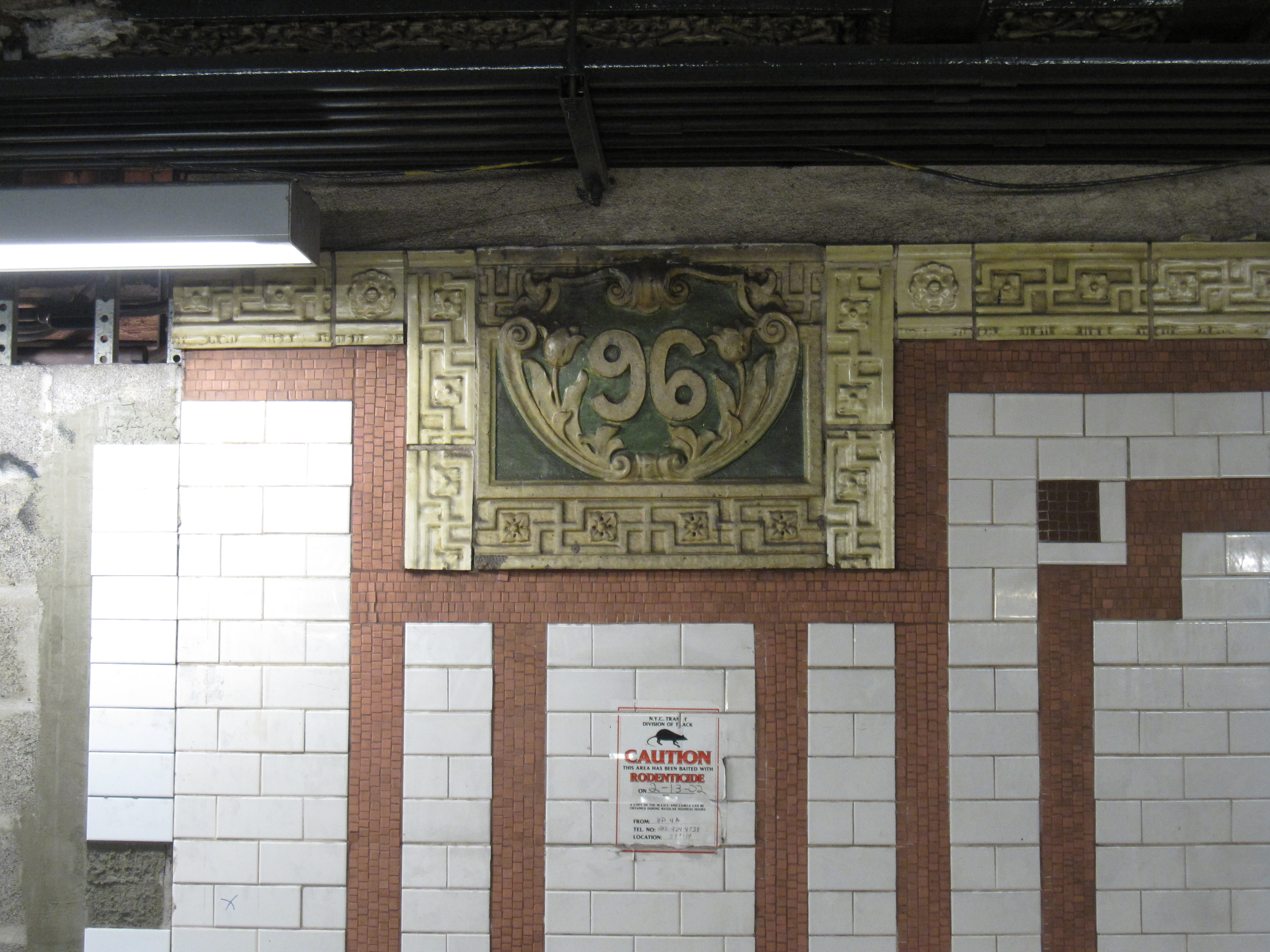 96th Street (IRT Broadway – Seventh Avenue Line)